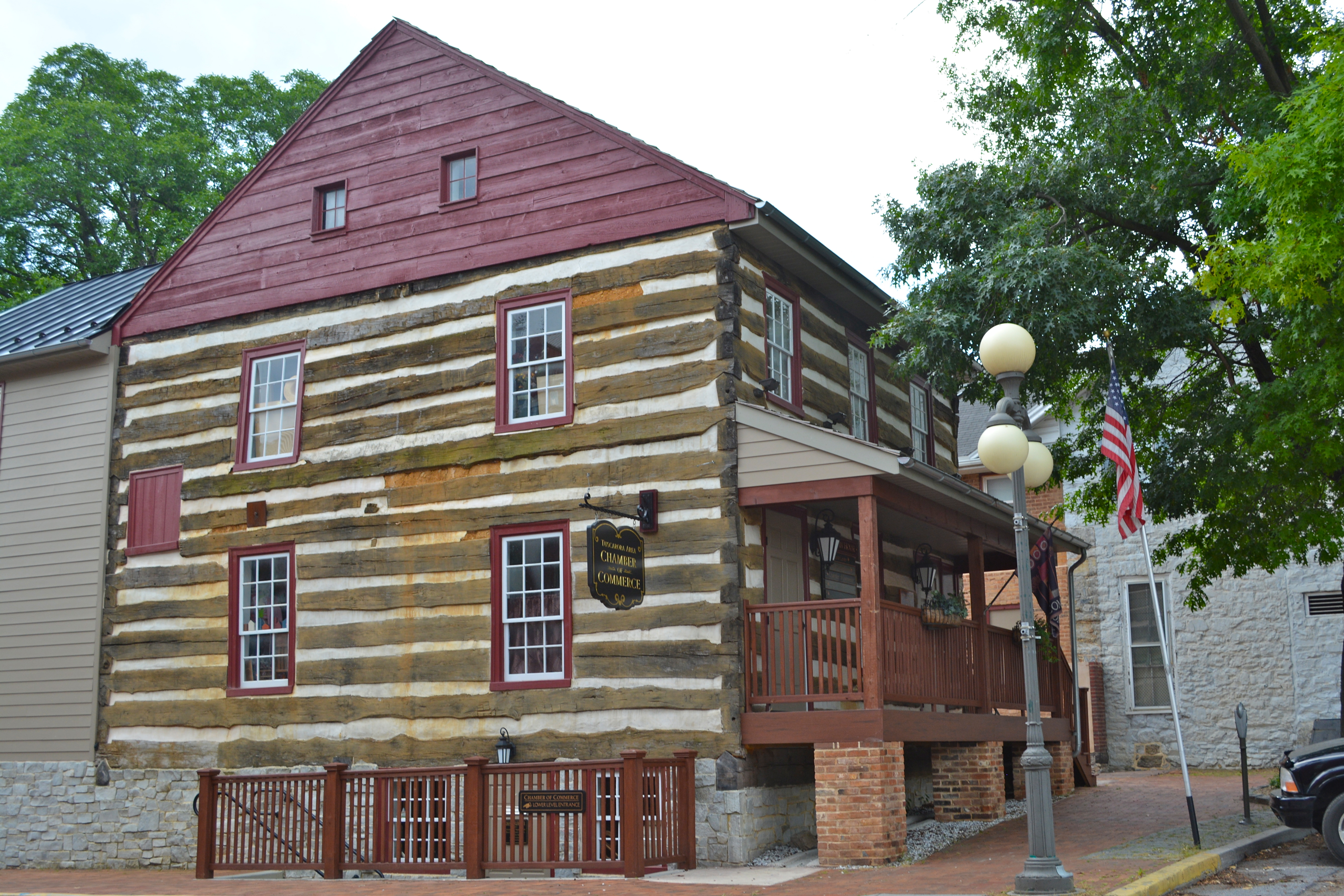 Irwin House in Mercersburg Historic District listed on the NRHP on December 13, 1978 (boundary increase May 17, 1989) (#78002403). Includes both Main and Seminary Streets, Mercersburg, Franklin County, Pennsylvania